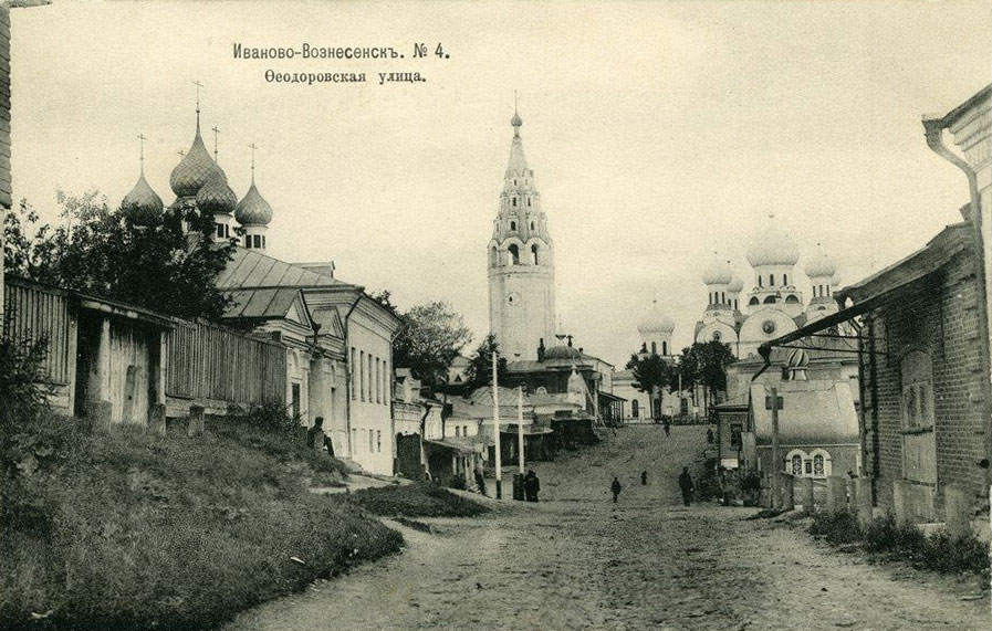 Feodorovskaya (now Krasnoarmeyskaya) street, Ivanovo-Voznesensk. Pre-1917 Postcard.